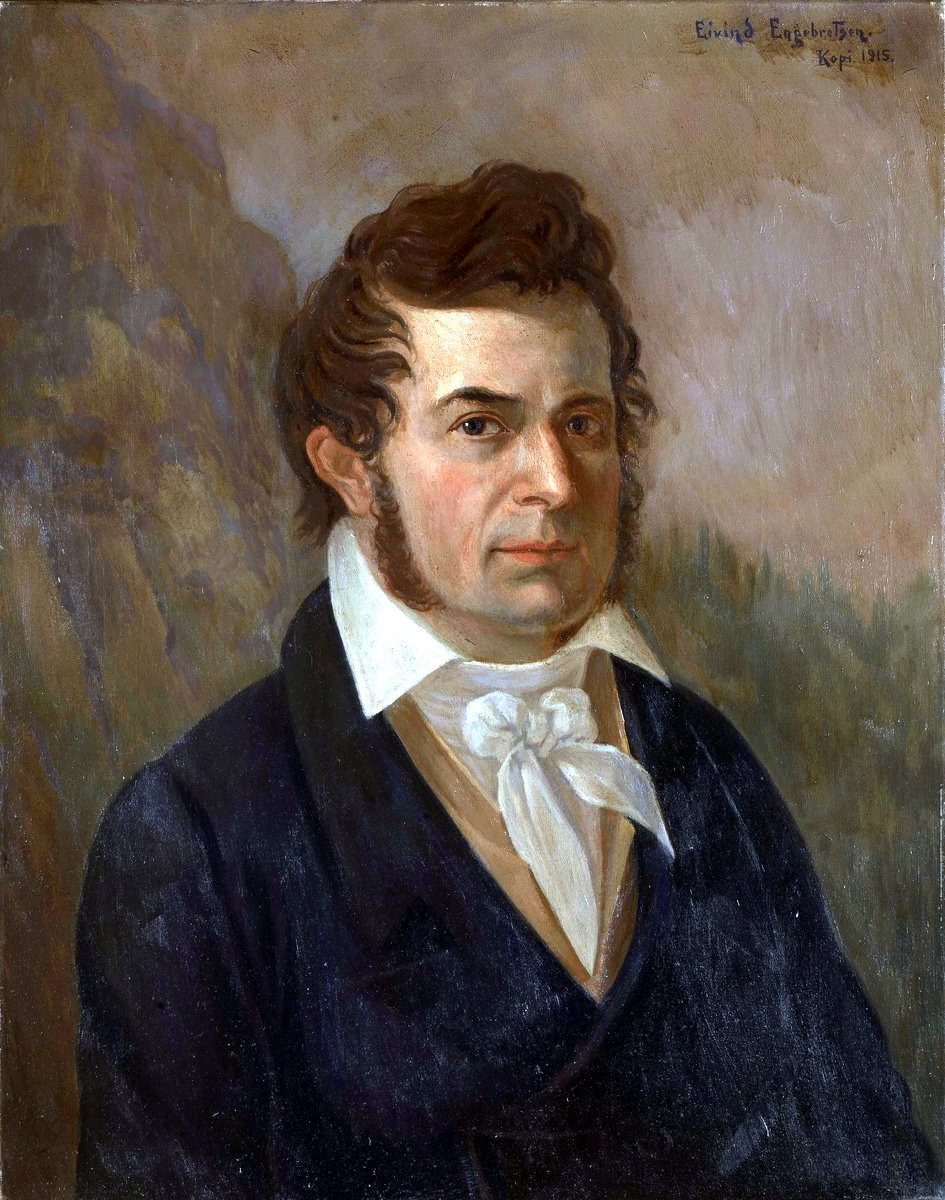 Portrait of Gregers Fougner Lundh. Painting by Eivind Engebretsen, copy after painting from ca 1820 by Johannes Flintoe.